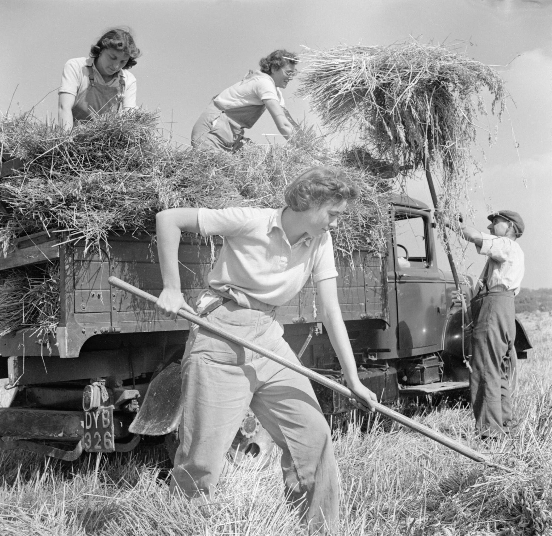 Harvesting at Mount Barton, Devon, England, 1942 Land Girls Joan Day, her sister Ivy, and Iris Andrews help a farmer to transfer stooks of harvested oats into a truck in the sunshine on Hollow Moor, Devon.